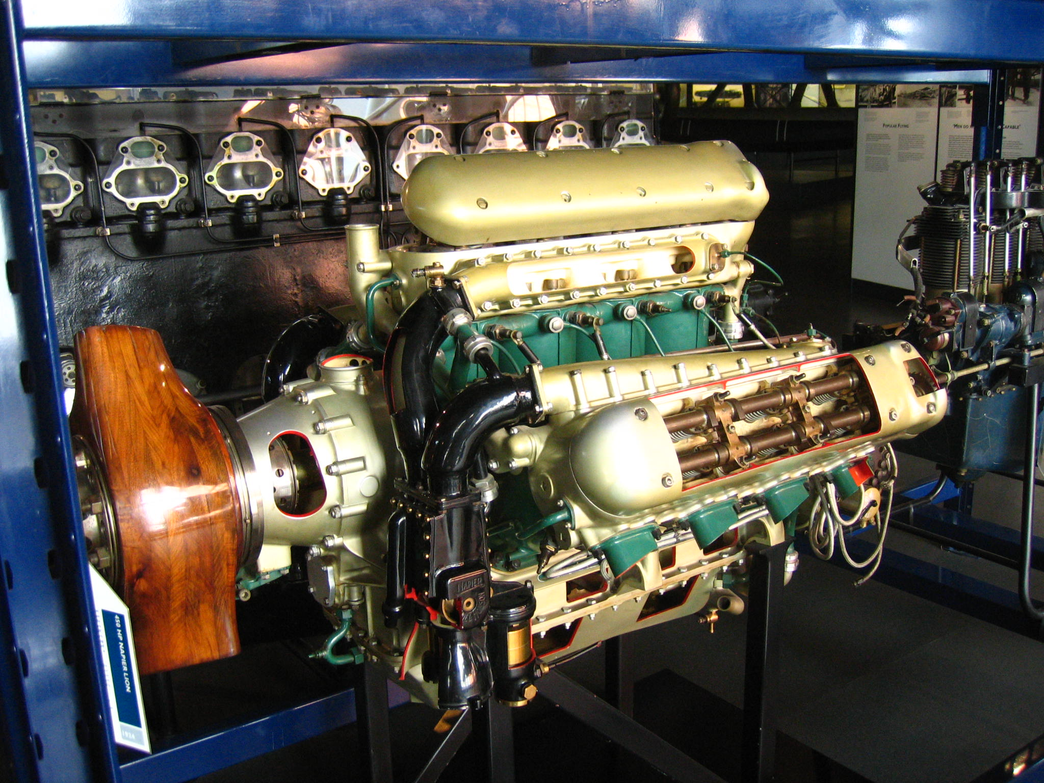 Napier Lion aero-engine at the Science Museum, London